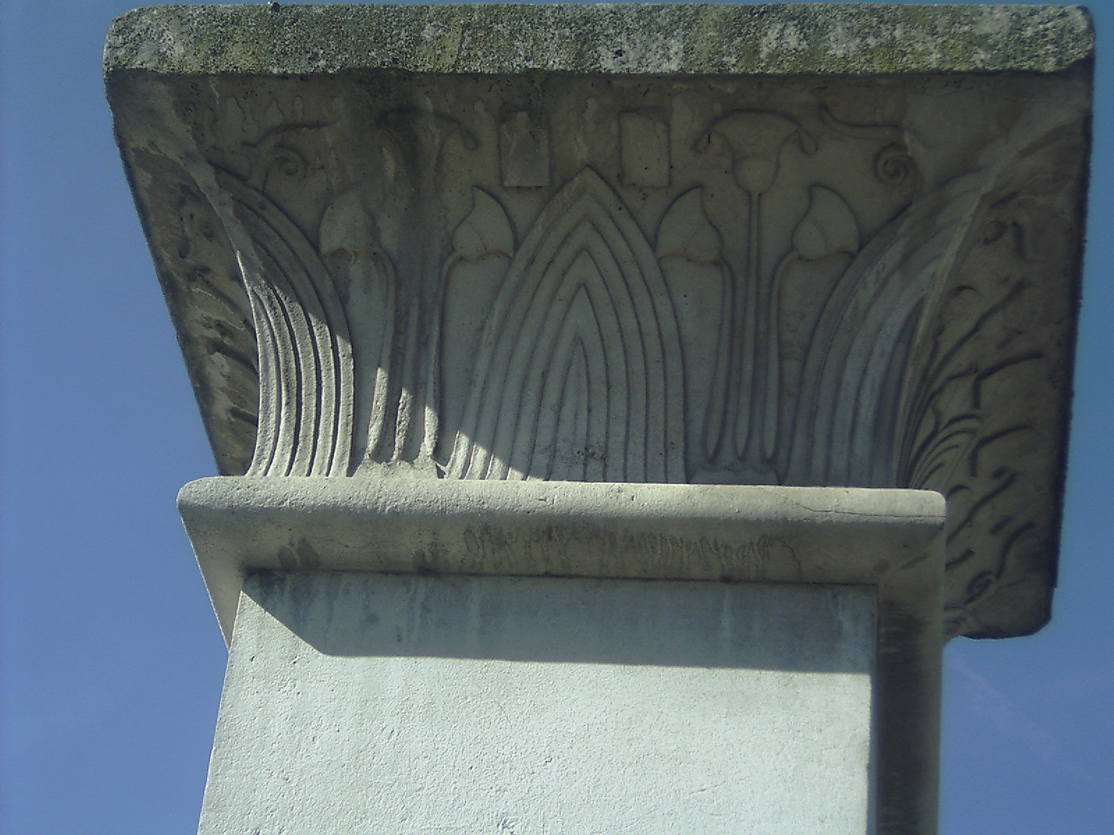 my own photograph taken summer 2005 at Abney Park, London N16